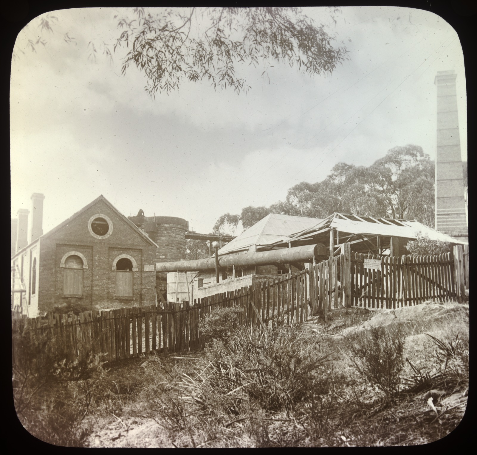 This photograph shows the 'top work' / blast furnace area of the Fitzroy Iron Works at Mittagong, N.S.W. Australia. The photograph's date is unknown but must be between 1875 and 1938 (based on photographer's working life). It must be before 1913 as other photographs show that the buildings surrounding the blast furnace had been demolished by that date. The works are in a dilapidated condition. Note the large metal pipe that carried furnace off-gases to the boiler house.